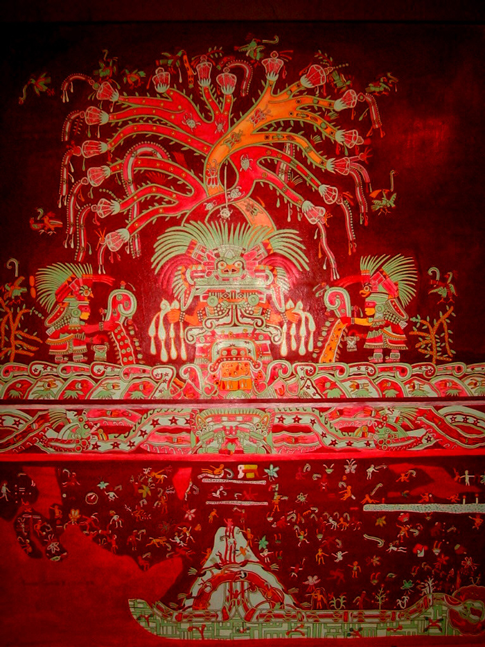 Mural which was believed to represent the Tlalocan, before the Great Goddess hypothesis. Tepantitla palace, Teotihuacan